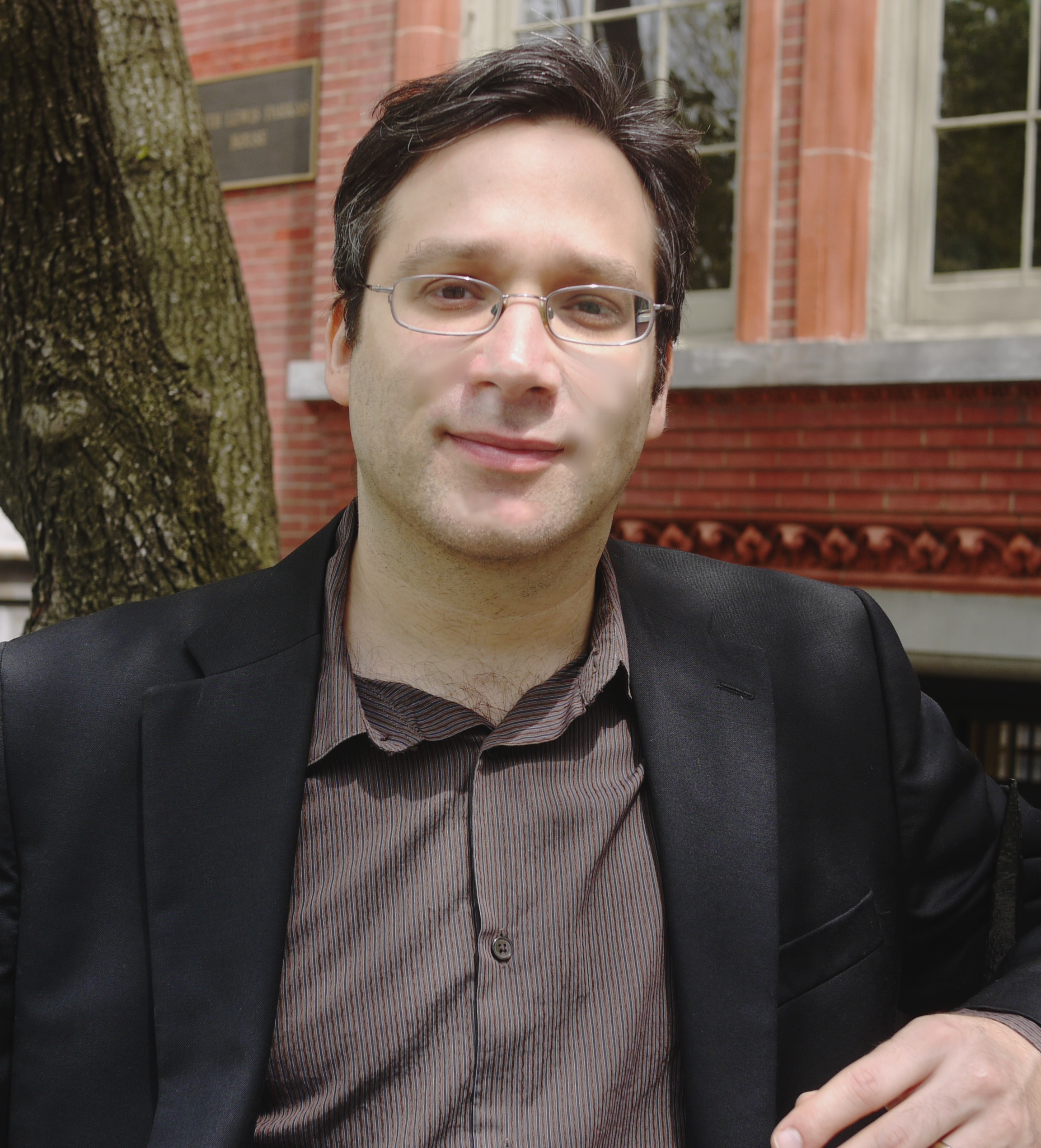 Photo of Gary Marcus taken in Washington Square Park, NYC